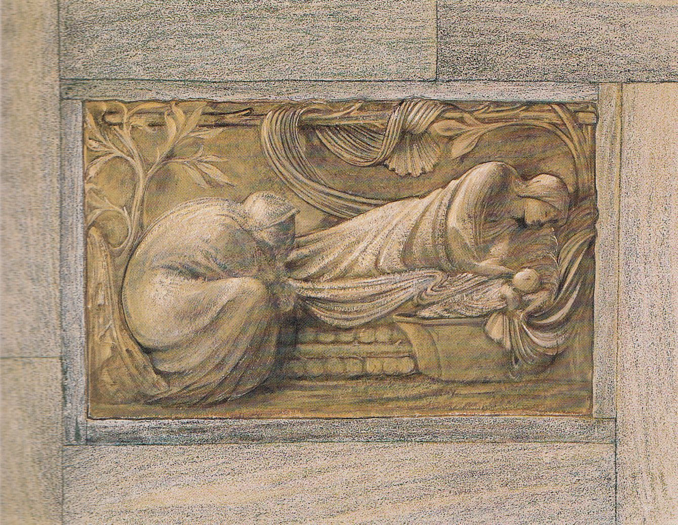 Sketch in watercolour, bodycolour, and pastel of The Nativity for a bronze relief monument commissioned by George Howard